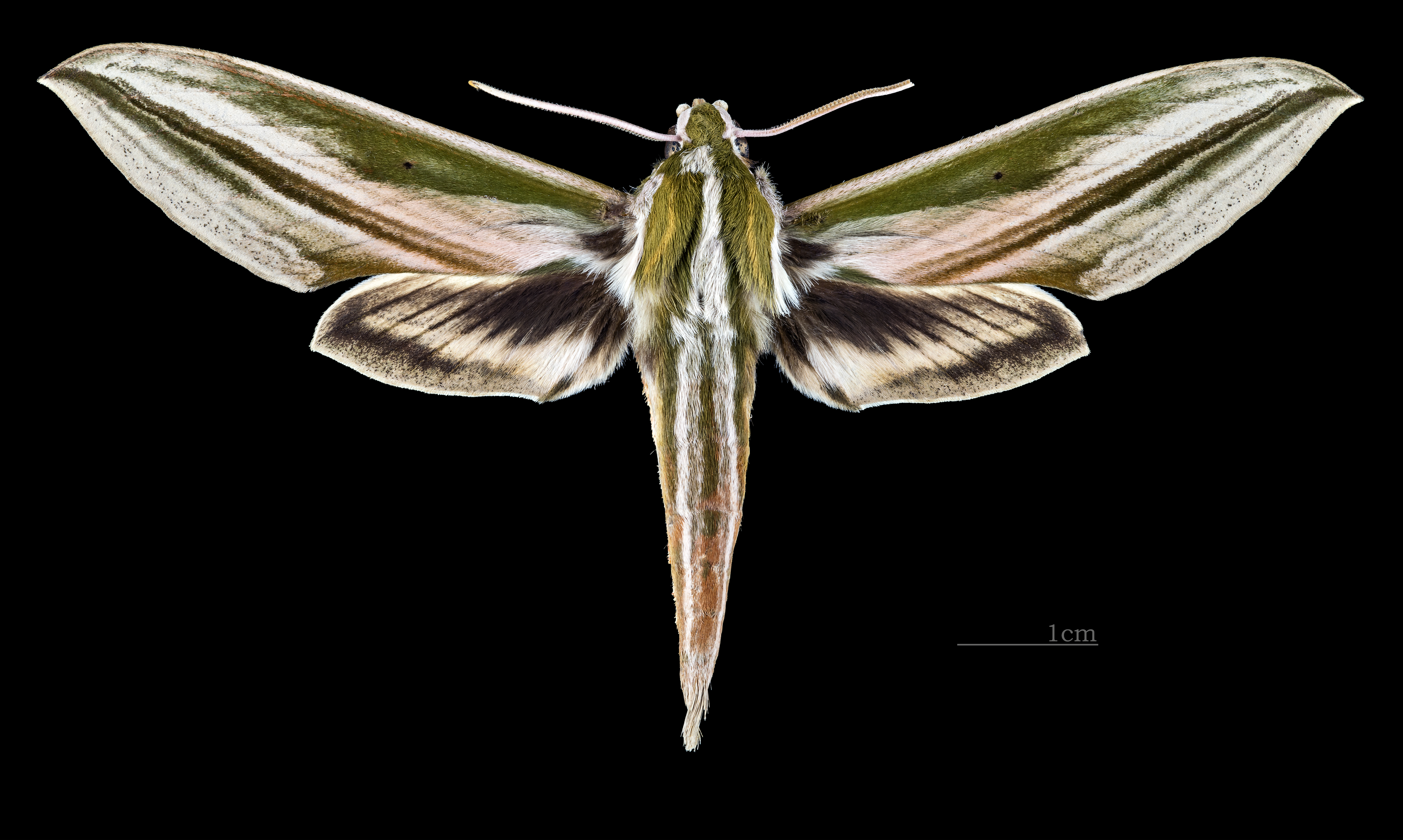 Cechenena scotti - Dorsal side Collection of the Mathematician Laurent Schwartz